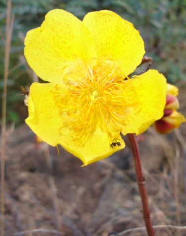 Cochlospermum regium - Yellow Cotton Tree derivative work